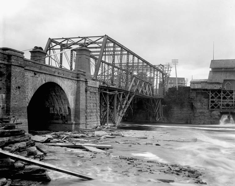 New Chaudière Bridge 1892, Ottawa, Ontario, Canada.